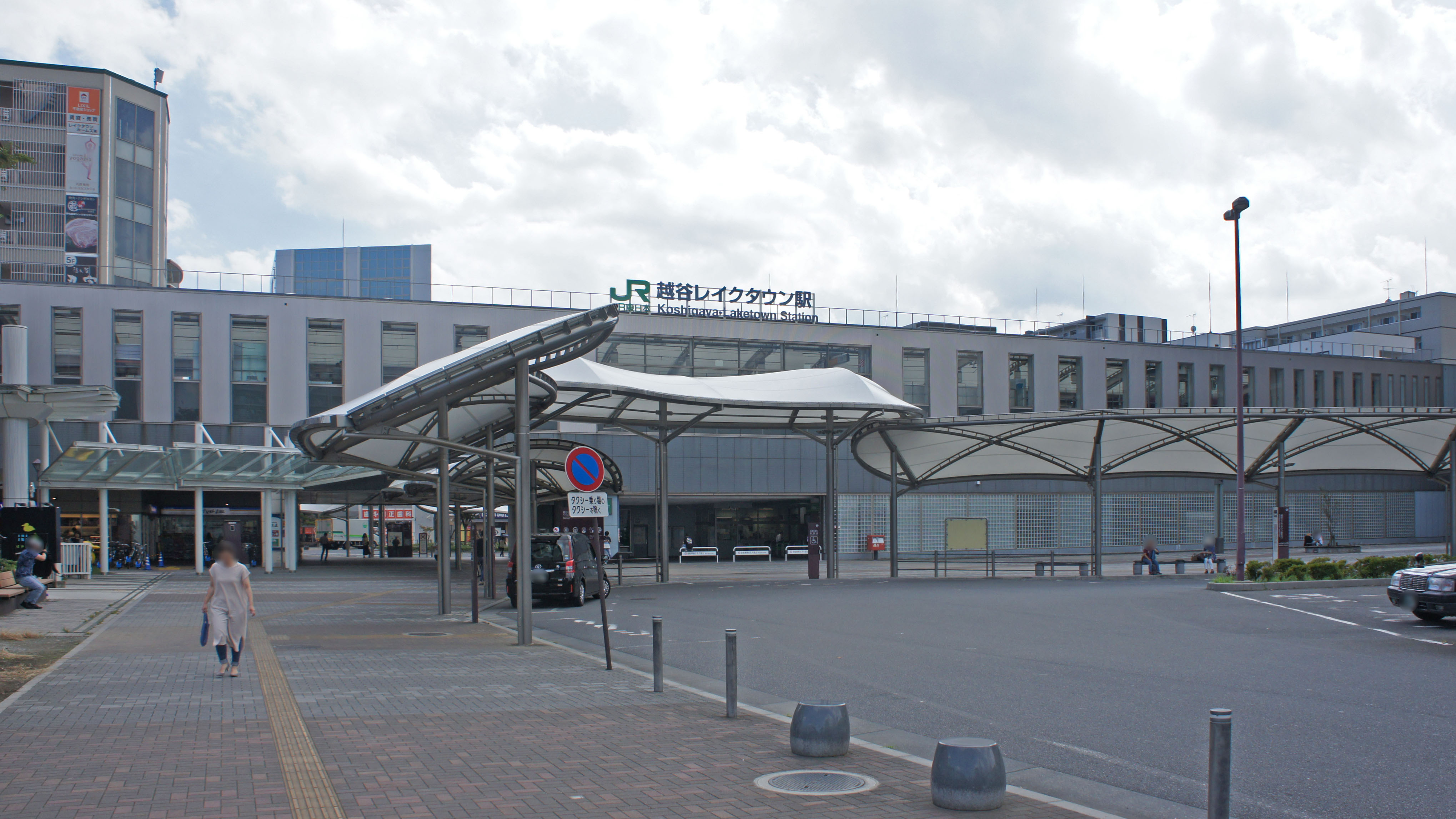 North Exit of JR Musashino-Line Koshigaya-Laketown Station